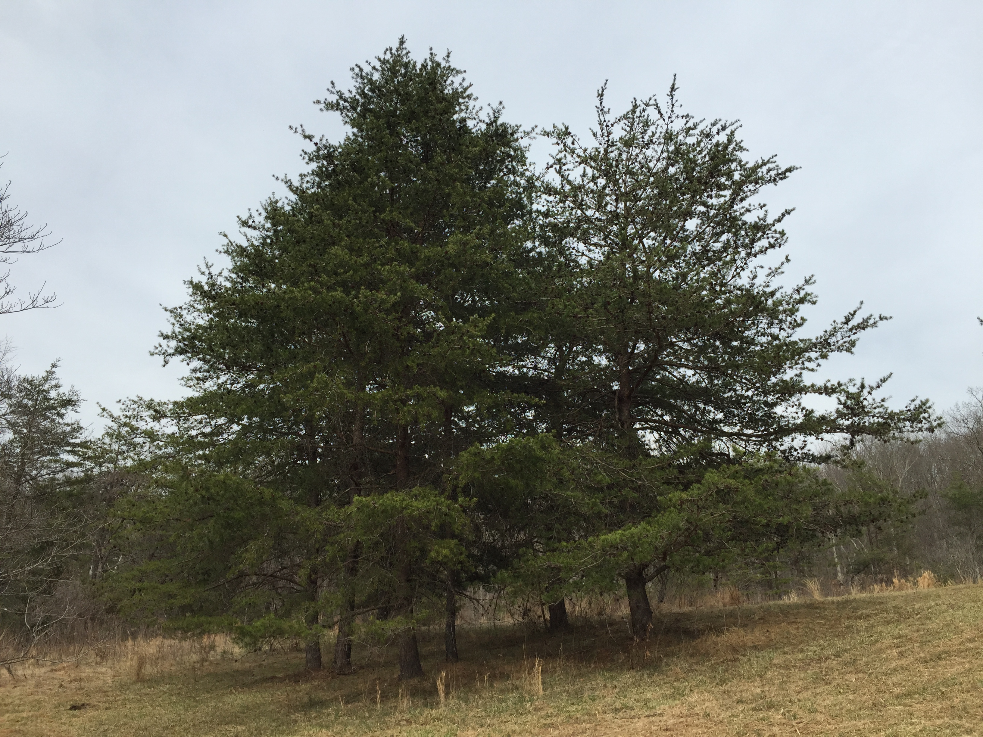 Virginia Pines along the Big Meadow Trail within Ellanor C. Lawrence Park in Fairfax County, Virginia